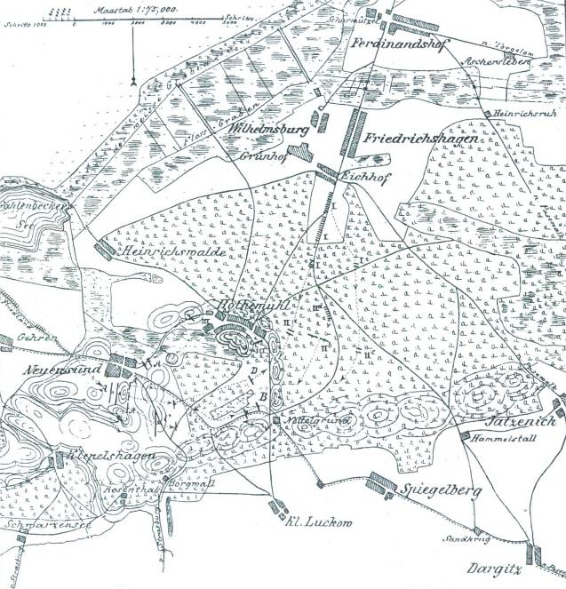 Detail of a map of the combat of Neuensund on September 18 1761.